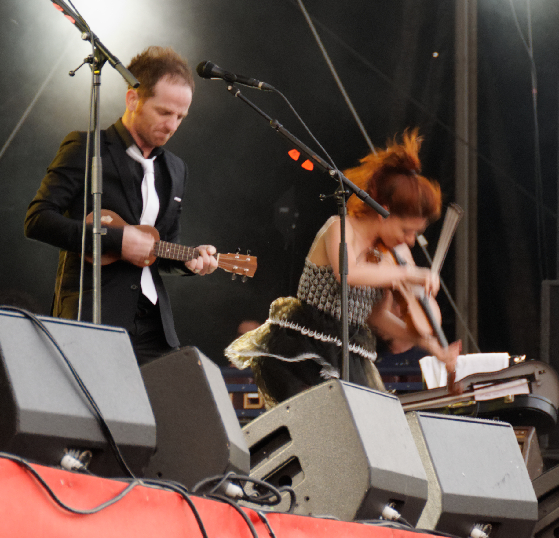 This photograph was taken with a Nikon D300 Personality rights warningAlthough this work is freely licensed or in the public domain, the person(s) shown may have rights that legally restrict certain re-uses unless those depicted consent to such uses. In these cases, a model release or other evidence of consent could protect you from infringement claims.